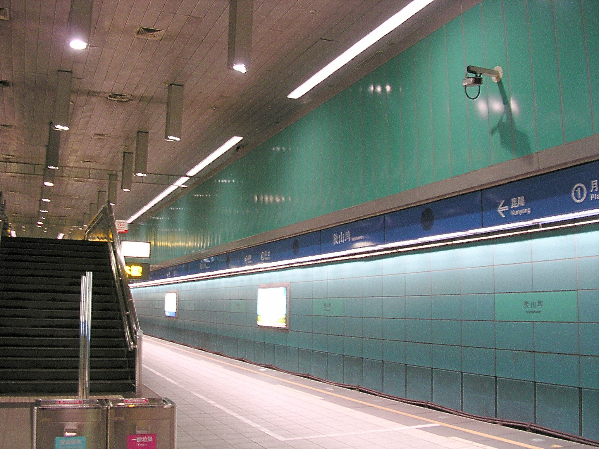 Platform 1 of Taipei MRT Houshanpi Station.